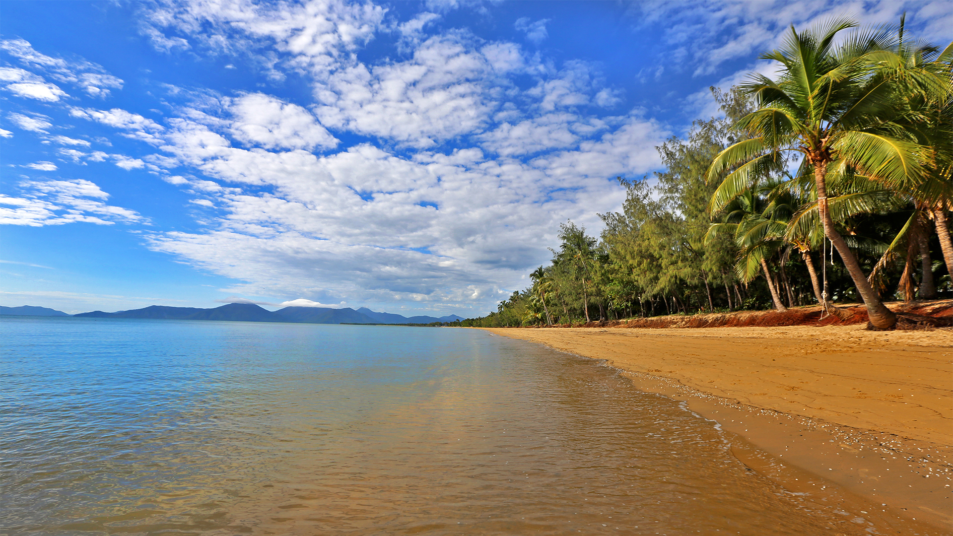 Photo of Holloways Beach, QLD, Australia.